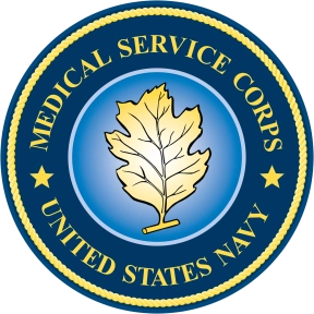 Seal of the United States Navy Medical Service Corps